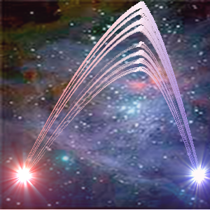 Work made with GIMP, to make an "out of" (blue Cherenkov light) and "into" (red away light) into space (distorted Orion galaxy) to remind the Starfleet emblem in Star Trek